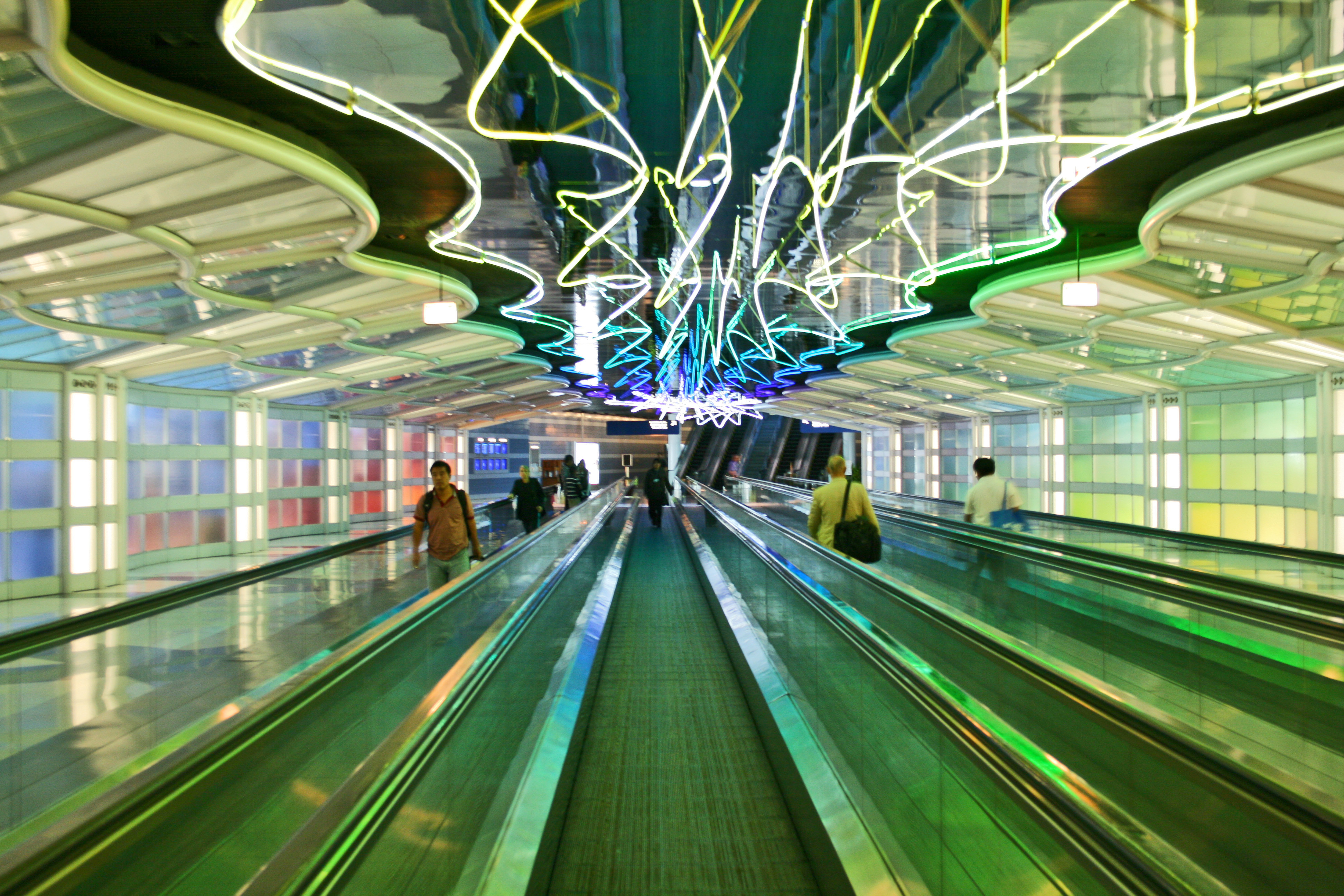 The subterranean 262 meters (860 ft) moving walkway at O'Hare International Airport in Chicago, Illinois bathed in neon light from the installation, Sky's the Limit (1987), by Michael Hayden.[1][2] The walkway is part of the United Airlines terminal that was designed by Helmut Jahn; the terminal was listed as one of the 150 favorite structures in the United States by the American Institute of Architects.